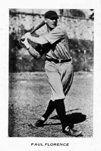 baseball player Paul Florence while at Georgetown, from the 1924 yearbook